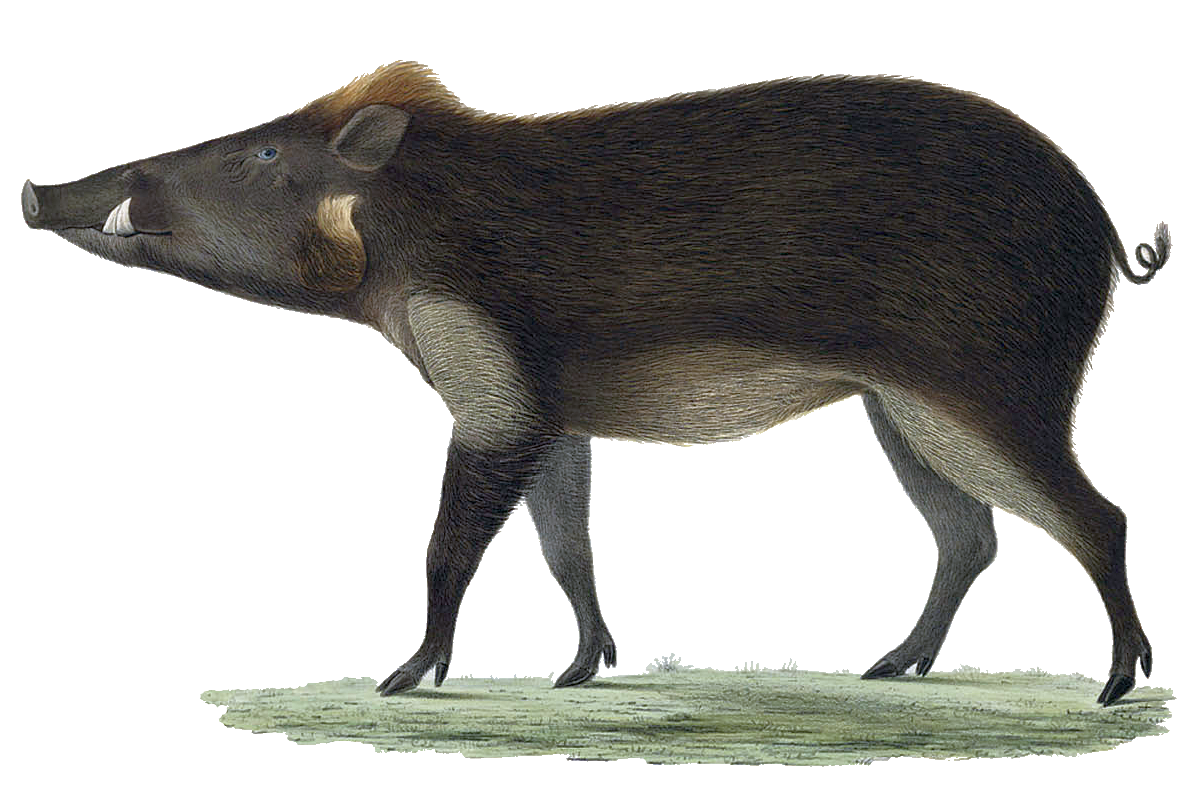 Sus verrucosus